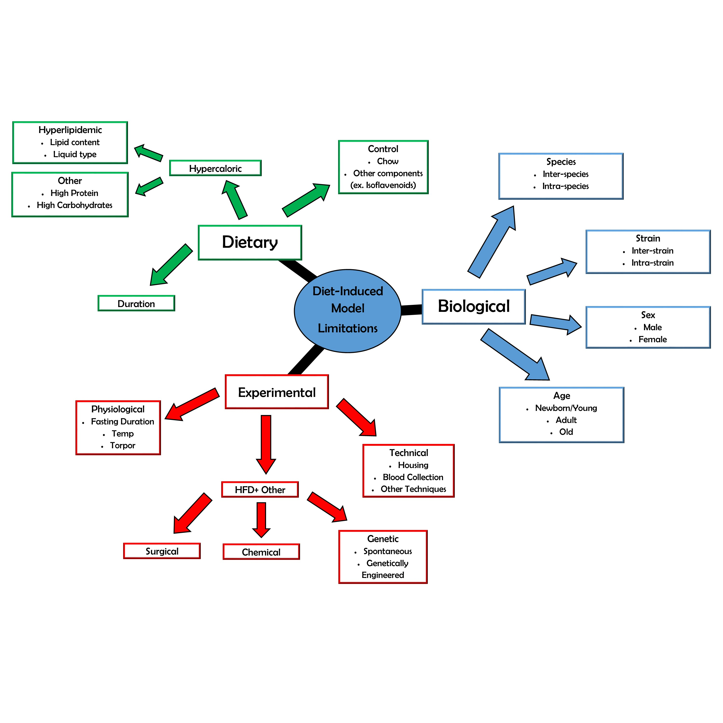 Different factors in which limit the diet induced obesity model.